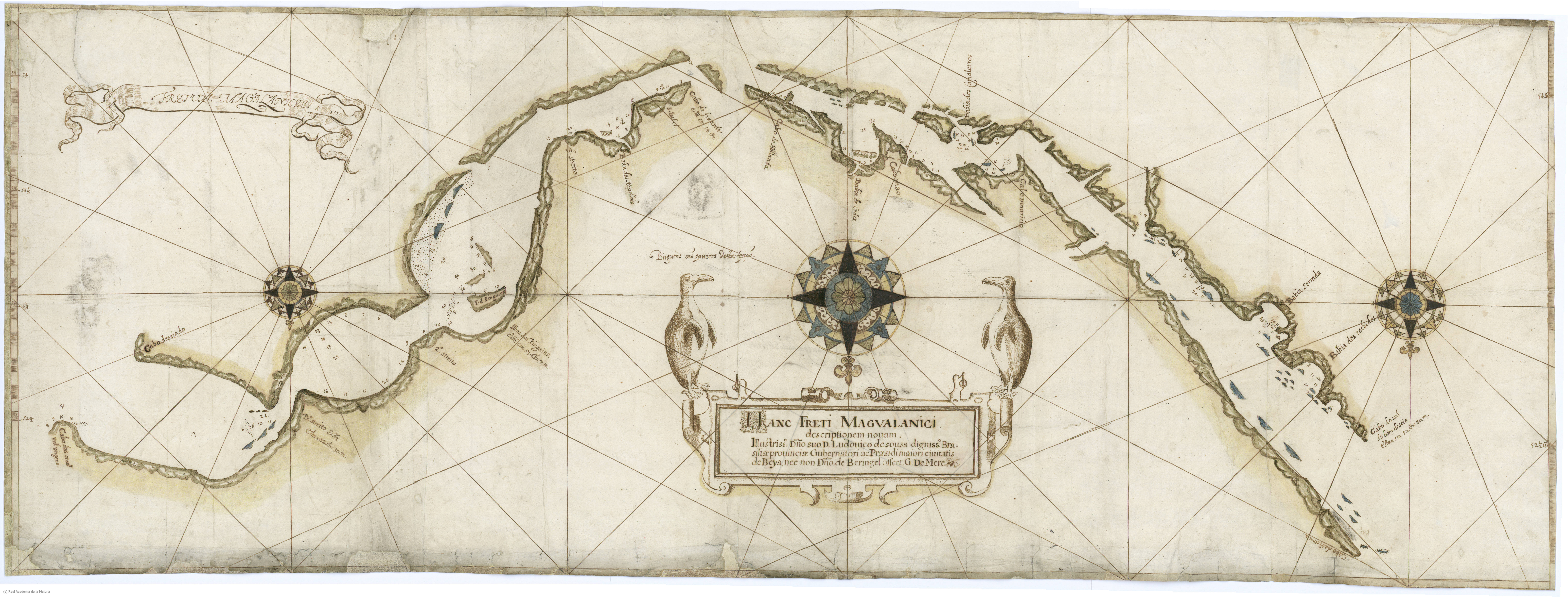 General chart of the Strait of Magellan made by Gaspar de Mere in 1617 based on the maps by the Dutch Jan Outghersz.